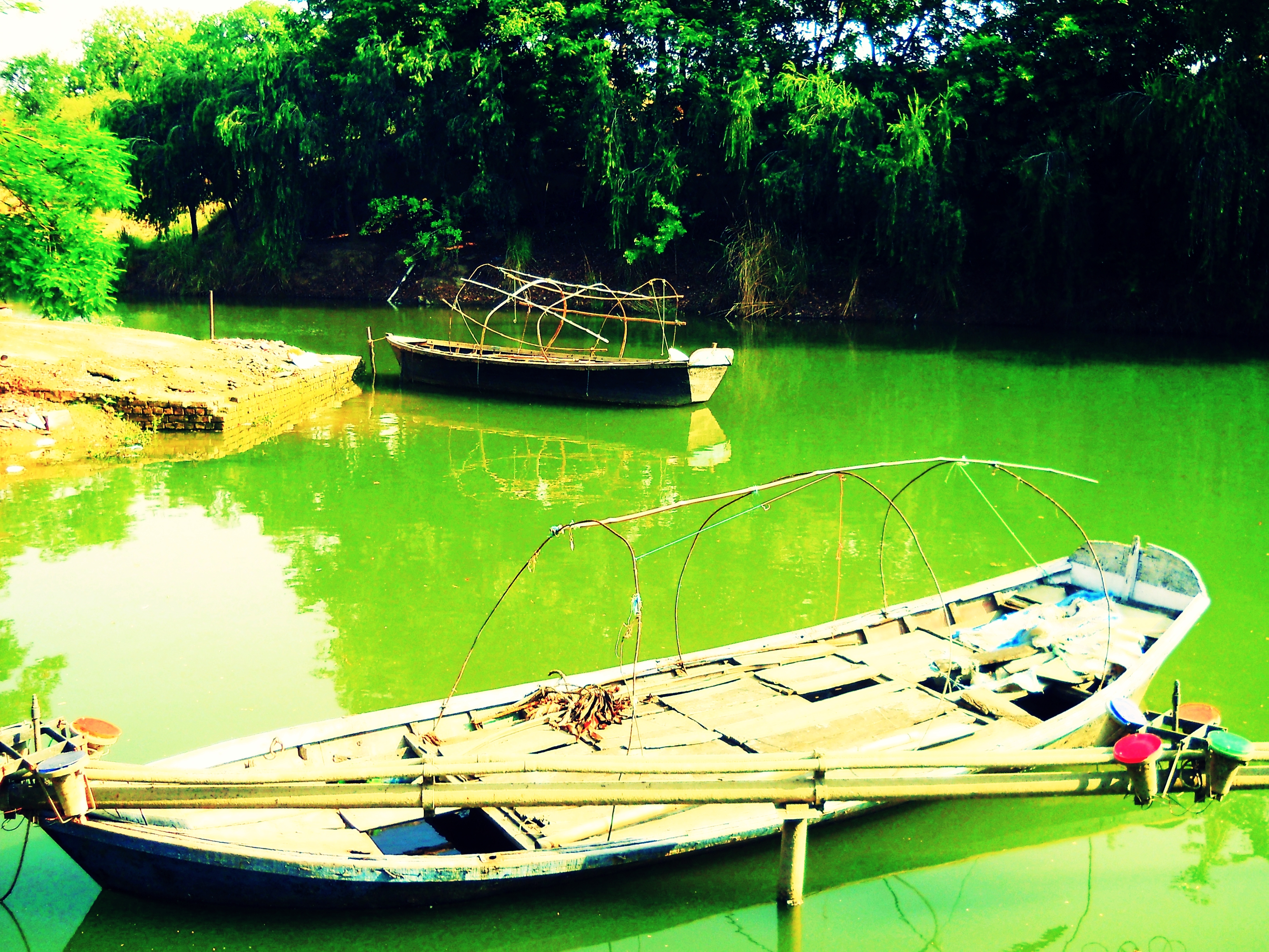 Varuna River as seen from Varanasi Cantonment